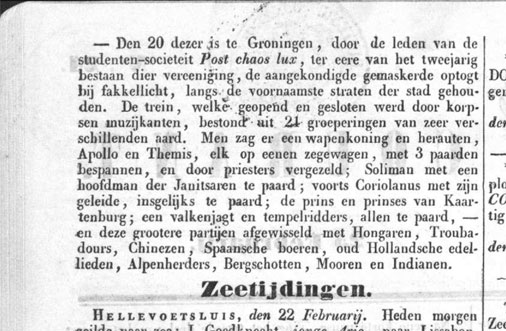 newspaper clip about the maskerade of Student association "Post Chaos Lux" ' in honor of their second anniversary